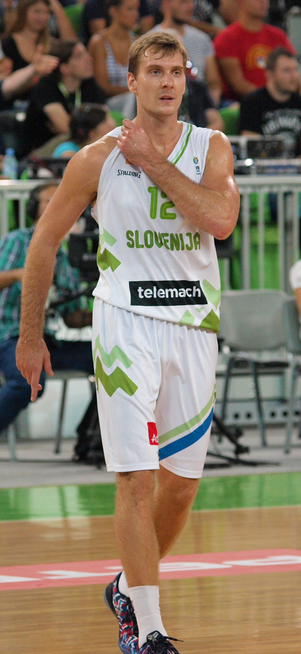 Zoran Dragić playing for Slovenia on friendly match vs Serbia. August 2015 in Ljubljana.